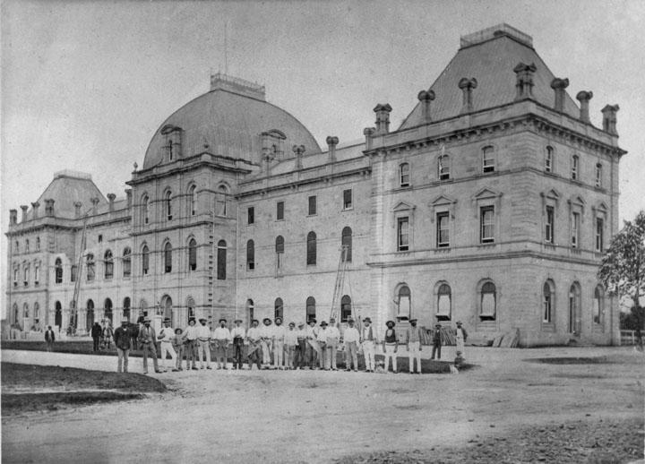 Parliament House, erection of balconies on George Street frontage.